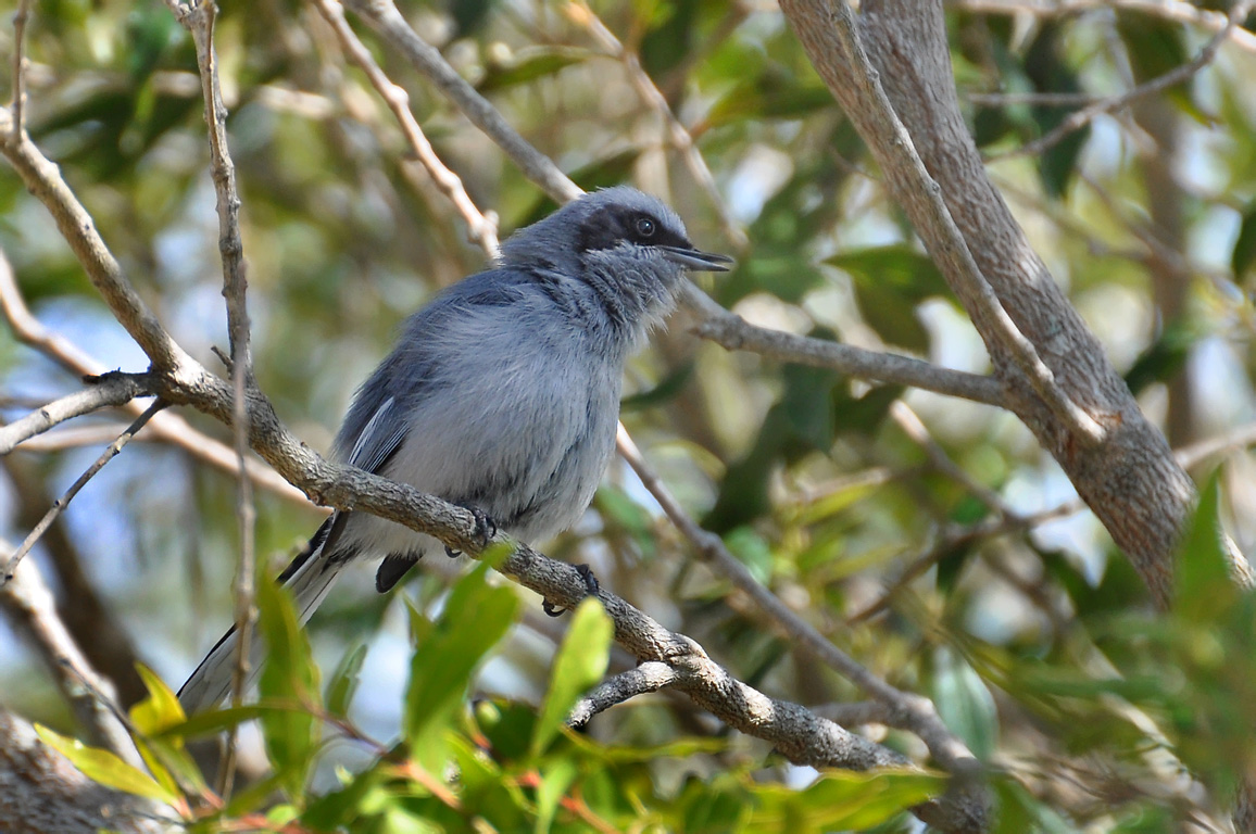 A male Masked Gnatcatcher in Rocha, Uruguay.